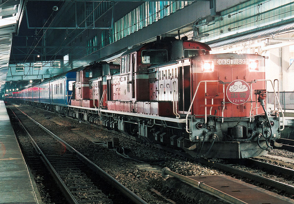 The Izumo 1 overnight sleeping car train at Okayama Station hauled by a pair of class DD51 diesel locomotives, headed by DD51 1189